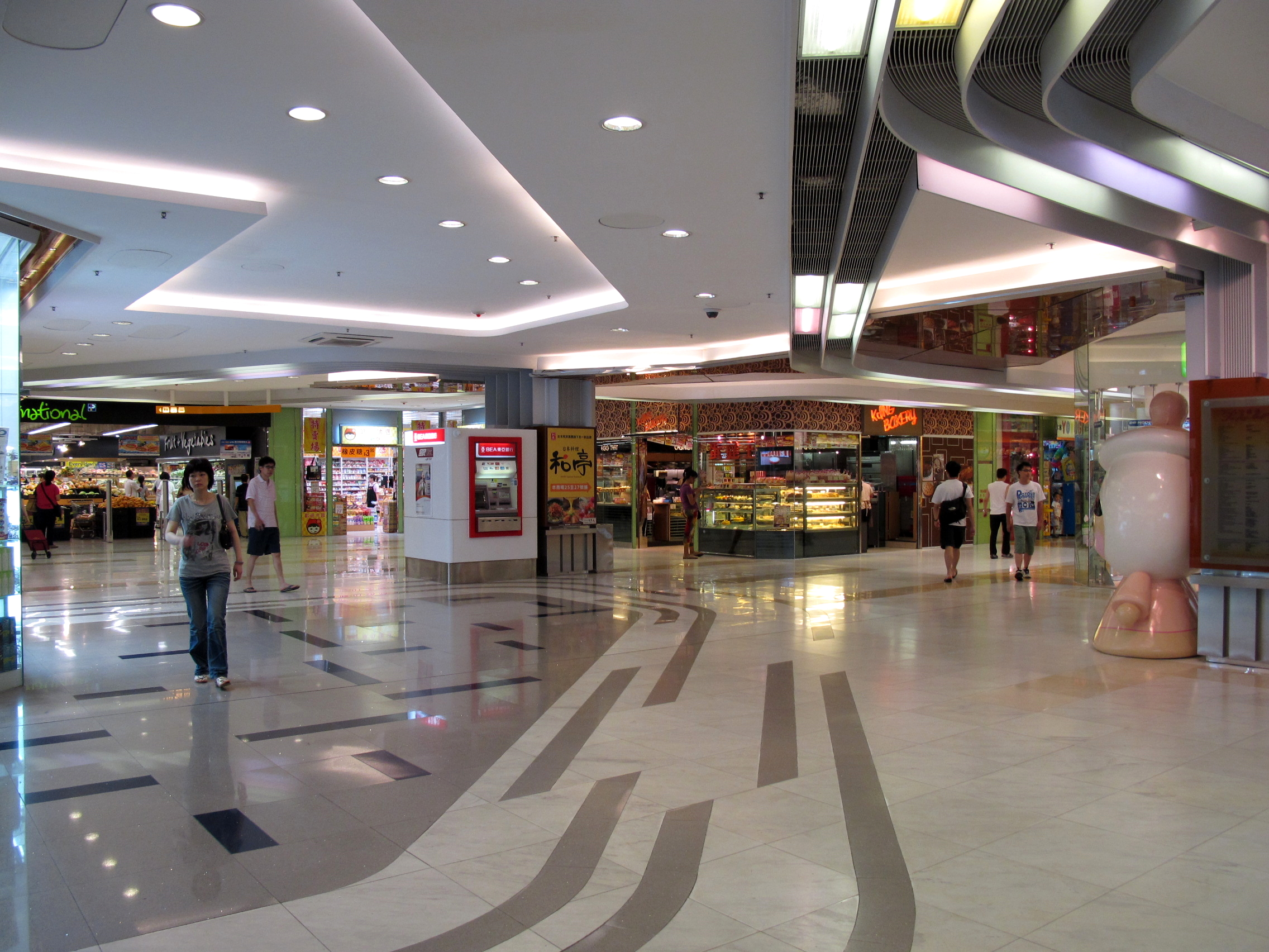 The Pacifica Shopping Arcade